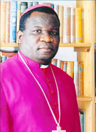 Archbishop of Harare